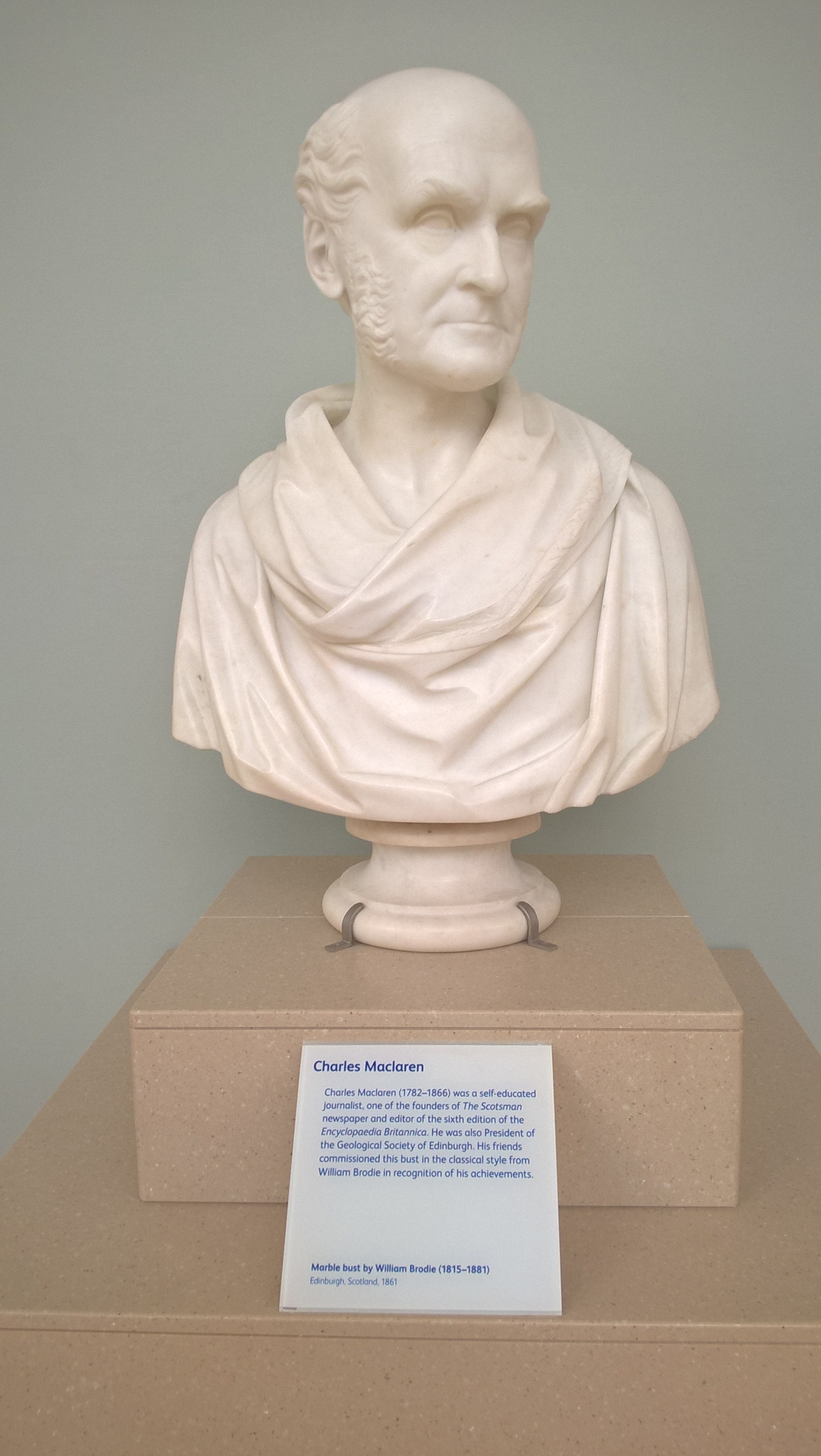 A marble bust of Charles Maclaren (1782-1866) creaed 1861 by William Brodie. On display in the National Museum of Scotland.